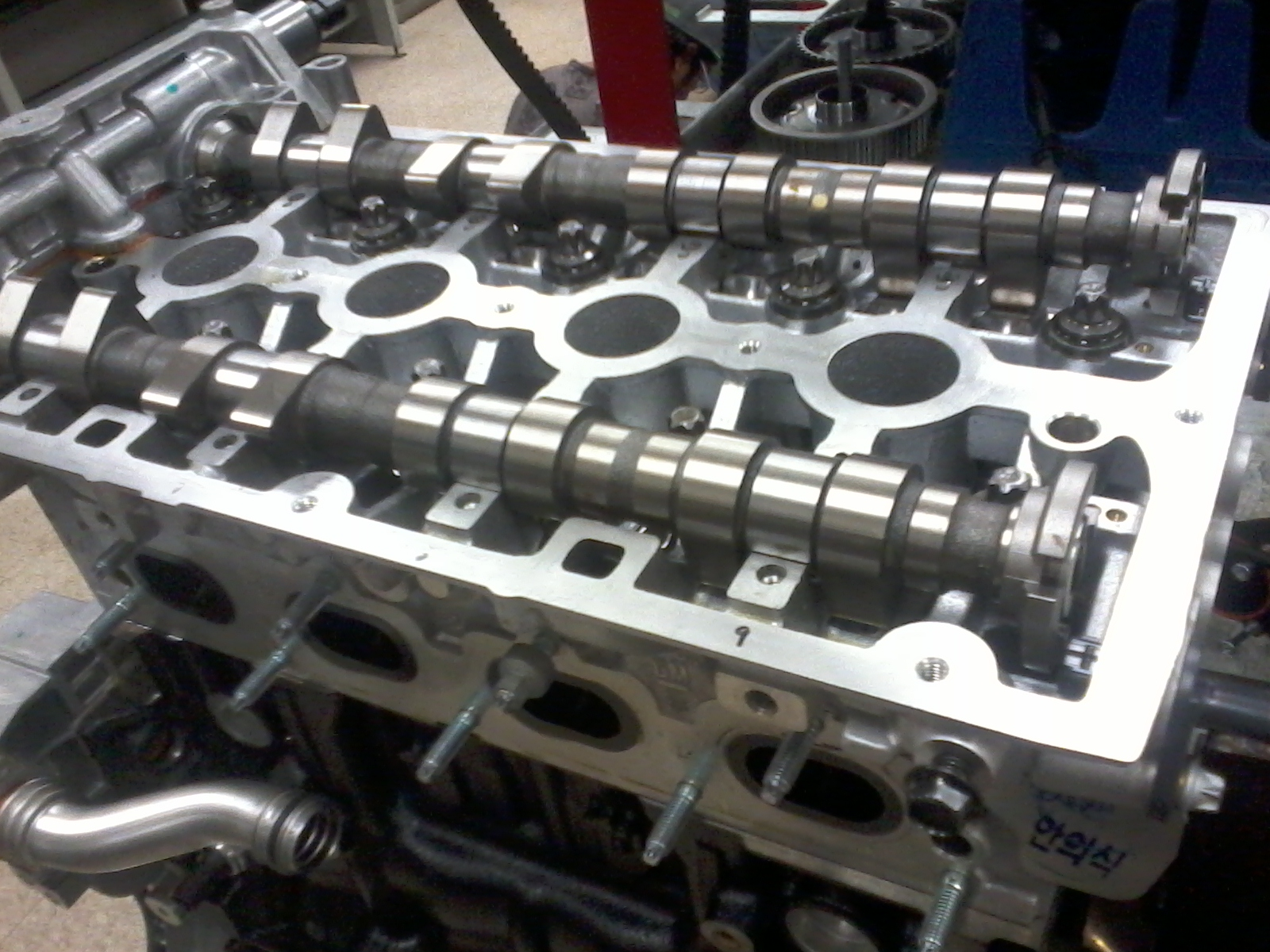 1.8 L DOHC Family 1 Gen III